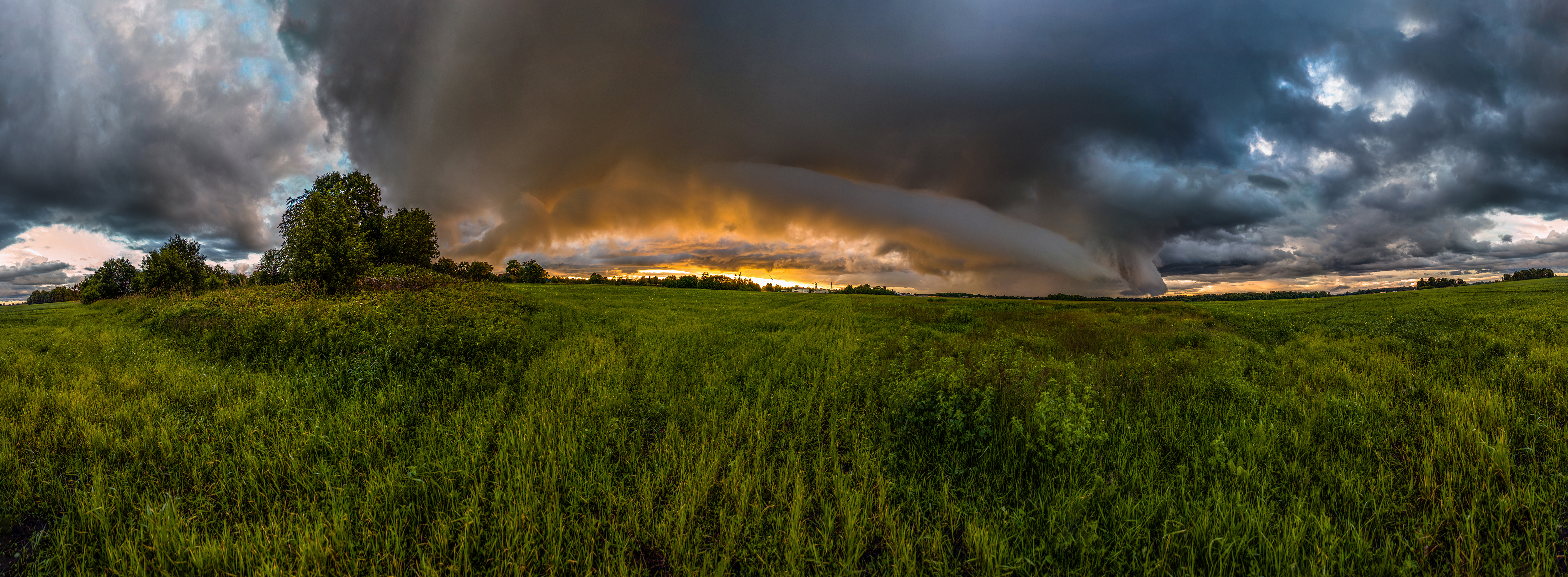 Arcus cloud